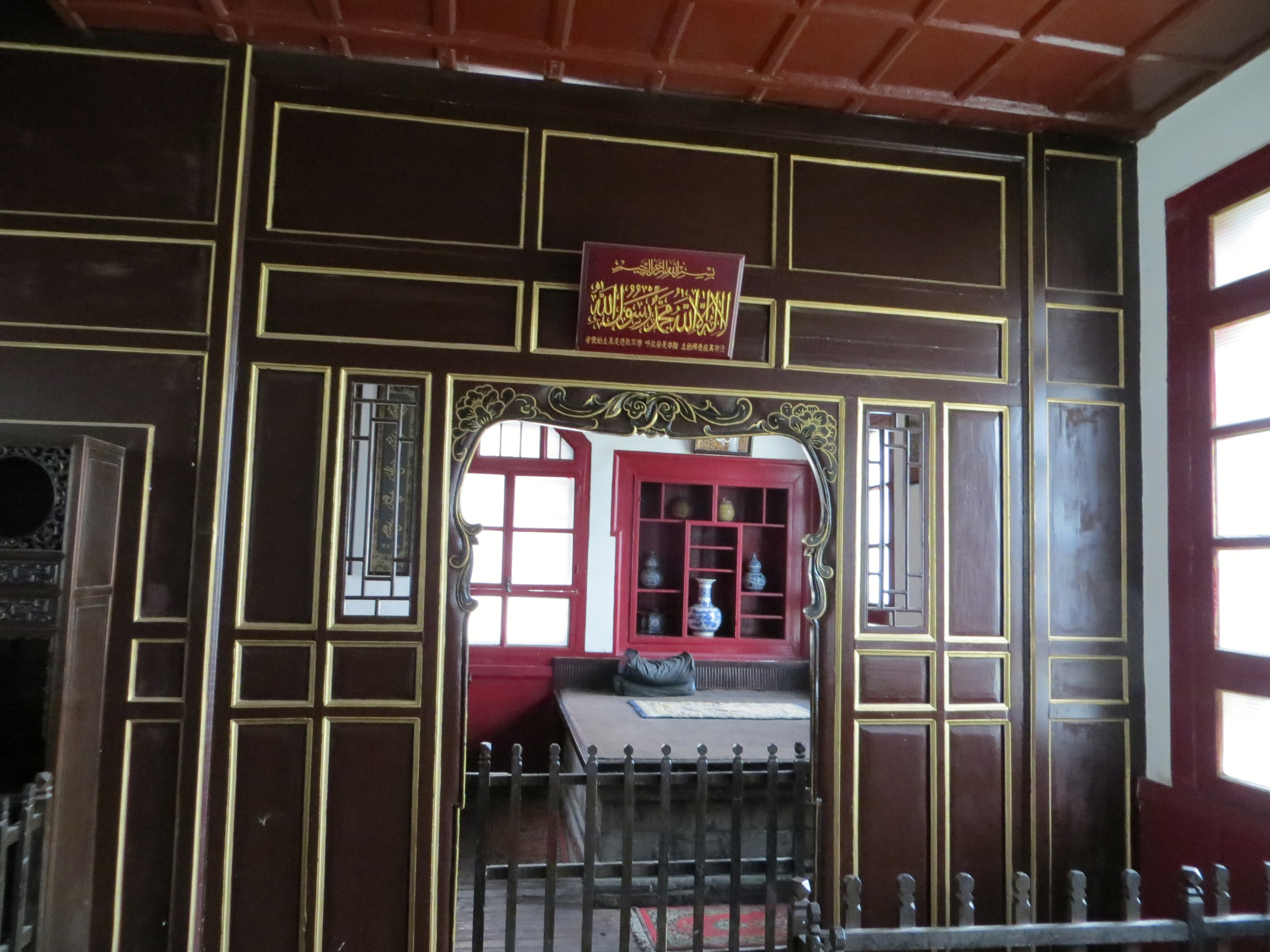 Ma Bufang bedroom, in it's Xining residence, Qinghai province.